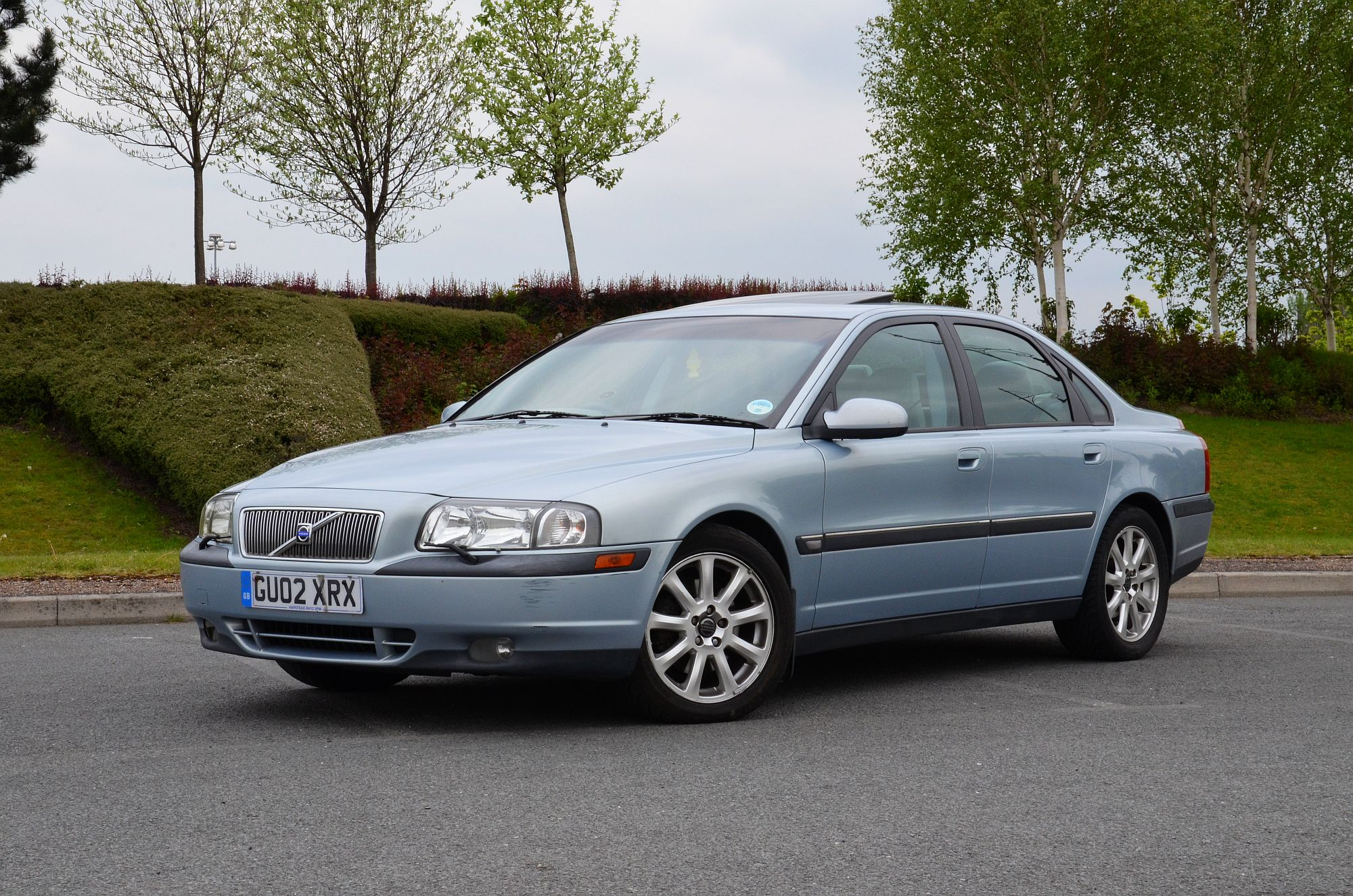 Volvo S80 2.4T 2002 mk1 front